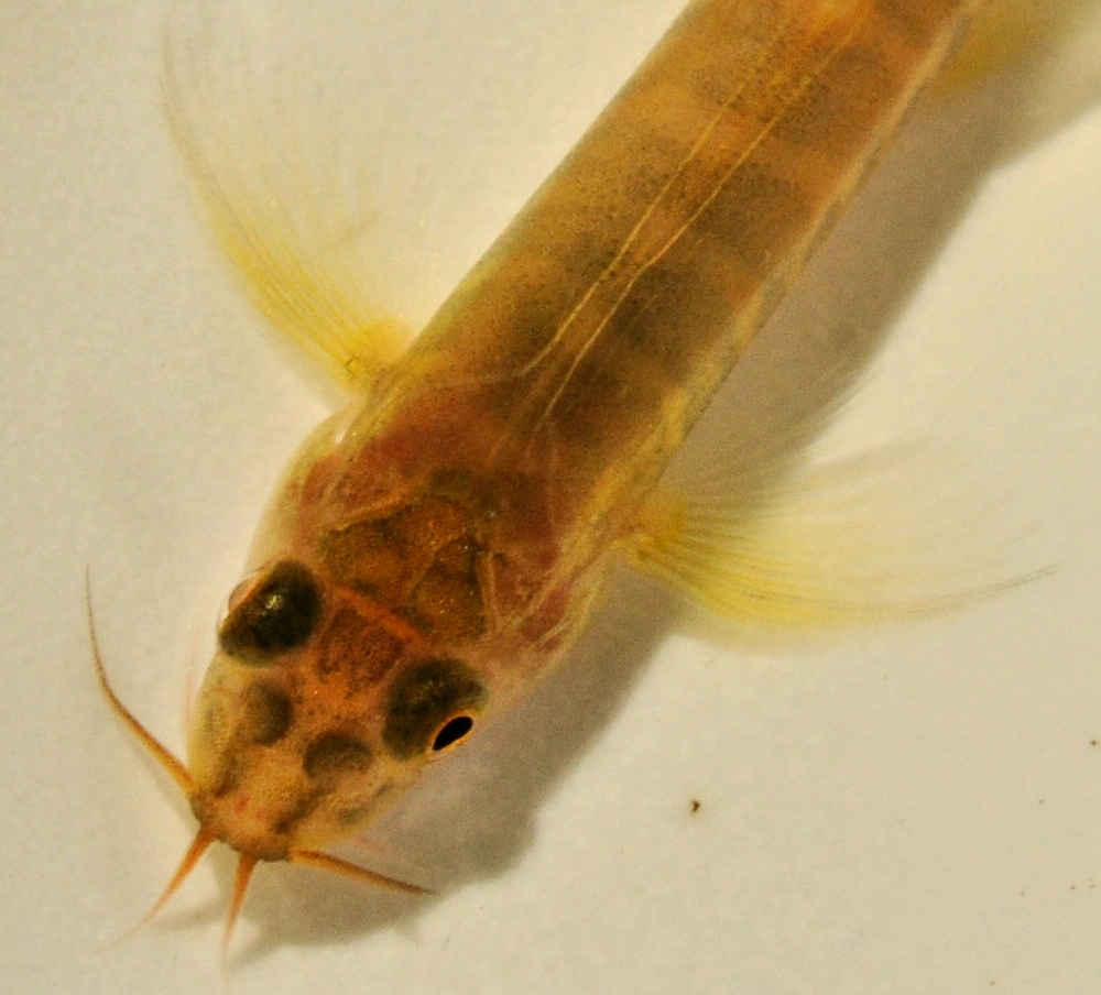 Nemacheilus chrysolaimos, from Cihideung Hilir, Bogor, West Java, Indonesia. Head close up.